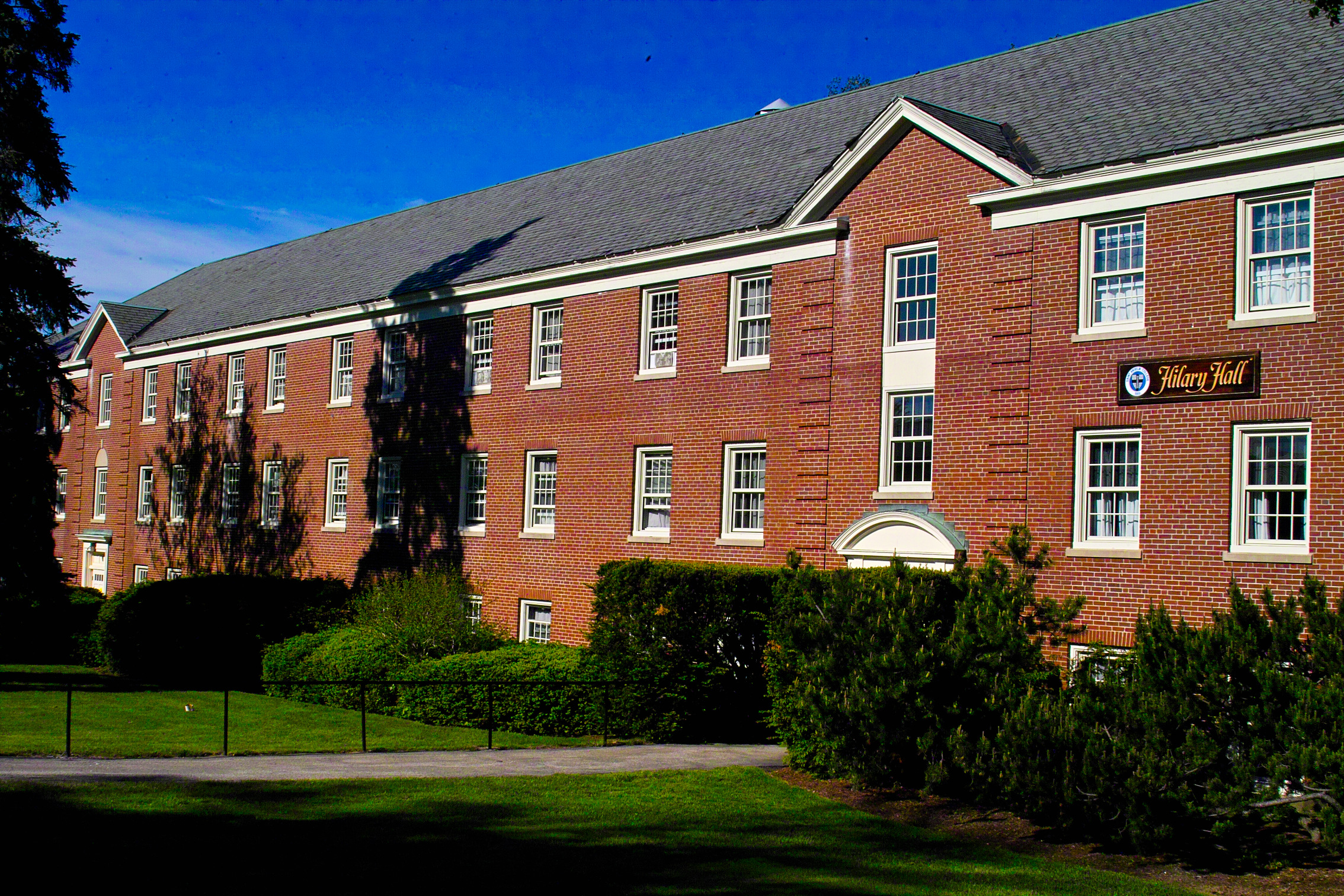 Hilar Hall - Residence Hall at Saint Anselm College